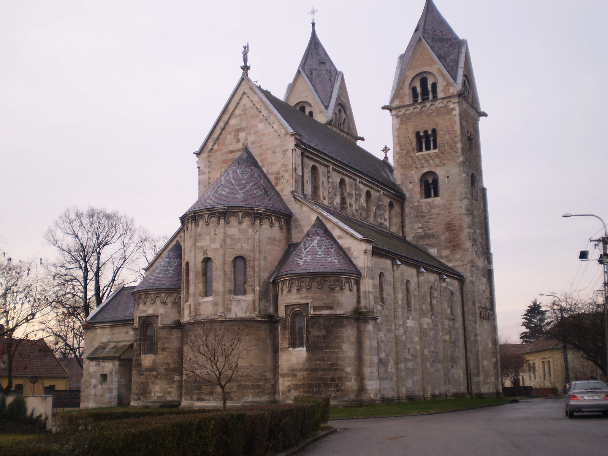 View to the Lébény church from East